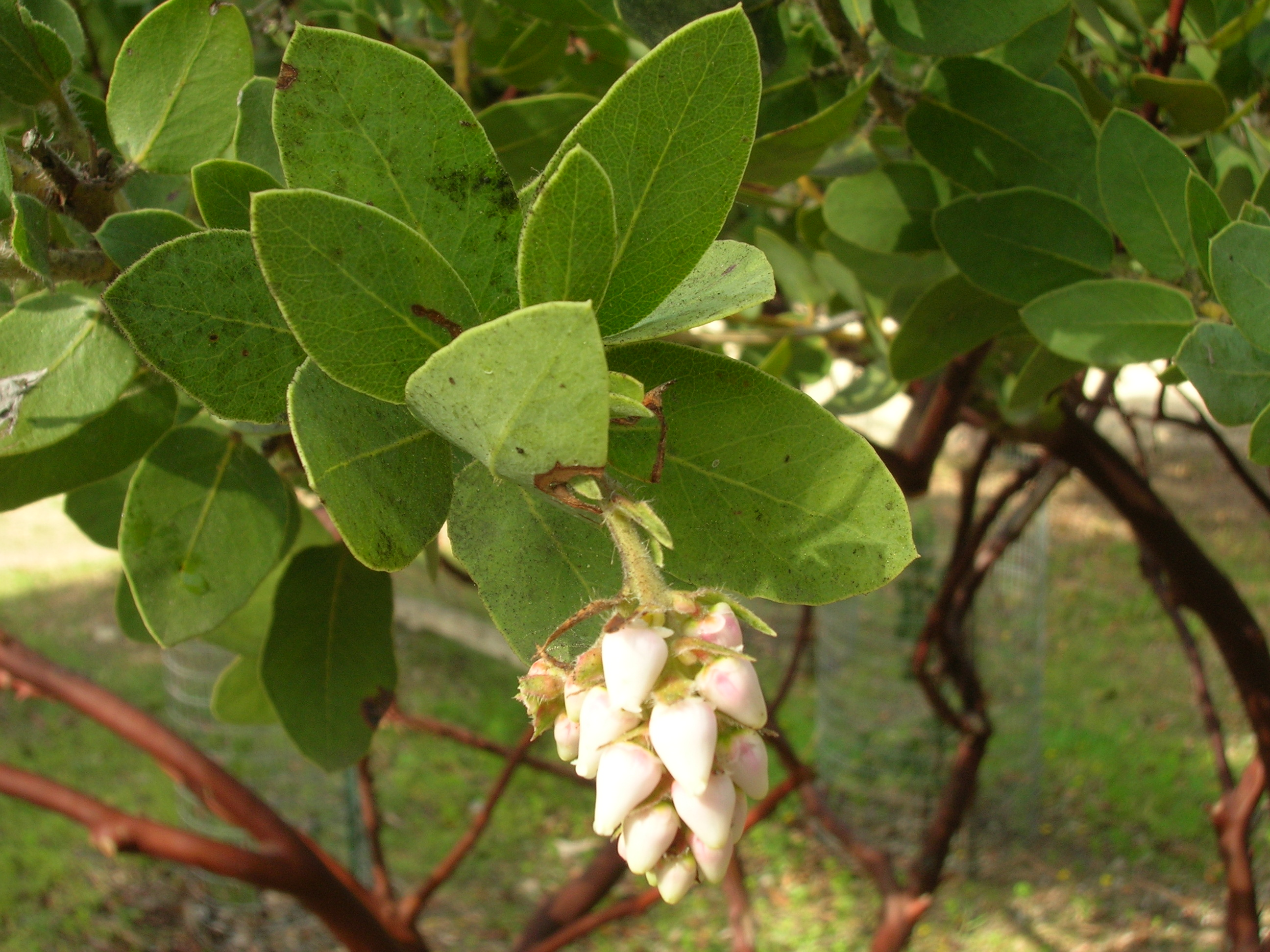 Catalina Island Manzanita Arctostaphylos catalinae Ericaceae Catalina Island endemic i020606 169